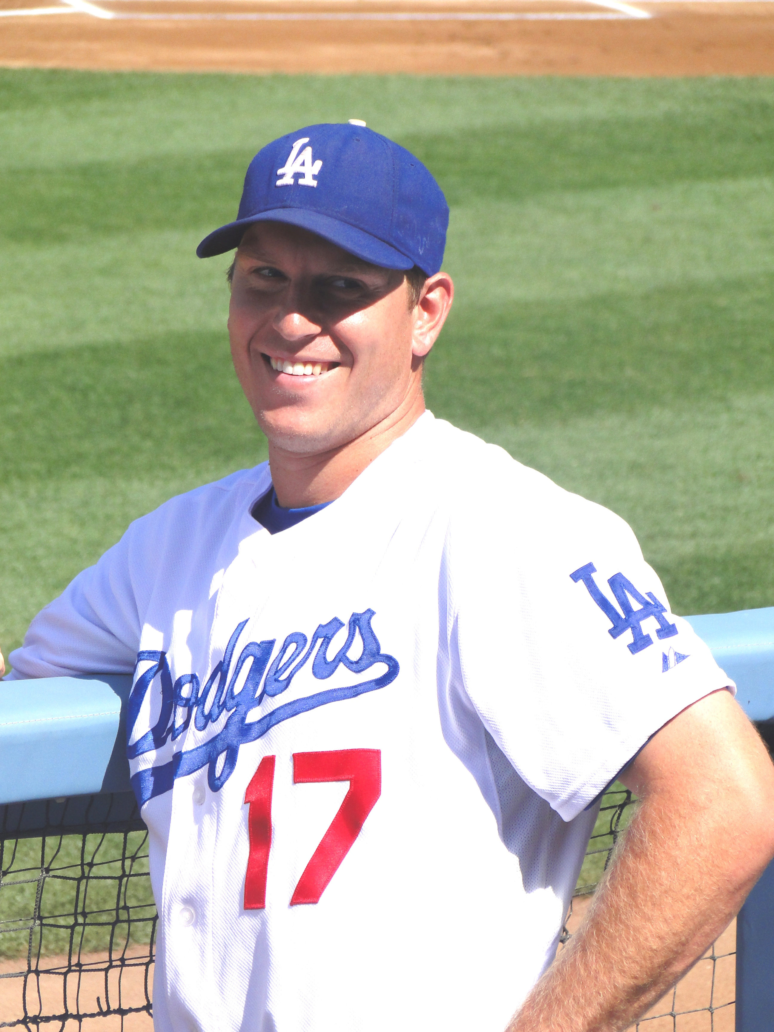 Description Photograph of A. J. Ellis at Dodger Stadium Date26 June 2010SourceI (Cbl62 (talk)) created this work entirely by myself.AuthorCbl62 (talk) 05:12, 27 June 2010 (UTC) 05:12, 27 June 2010 . . Cbl62 . . 2,592×3,456 (2.39 MB) Photograph of A. J. Ellis at Dodger Stadium